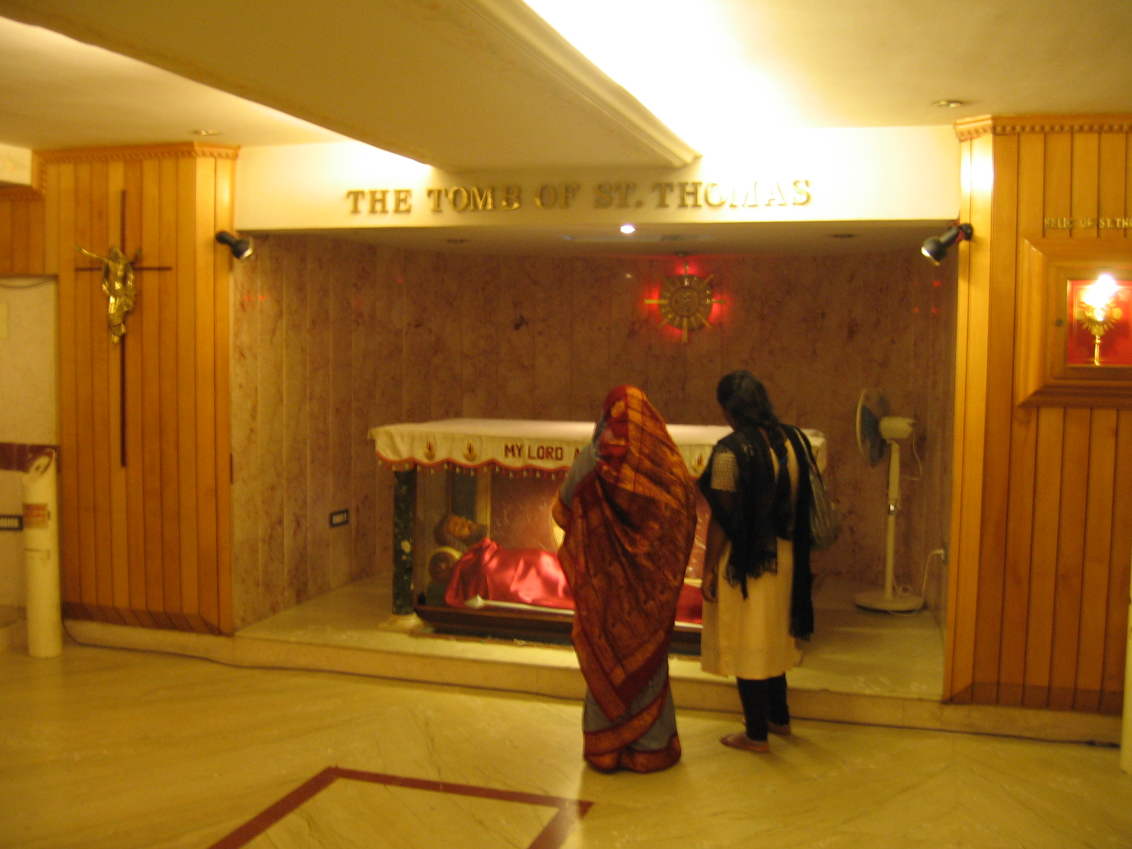 The tomb of Saint Thomas, one of the twelve apostles and apostle of the East, is to be found in the crypt of the St.Thomas Basilica of Chennai (India).